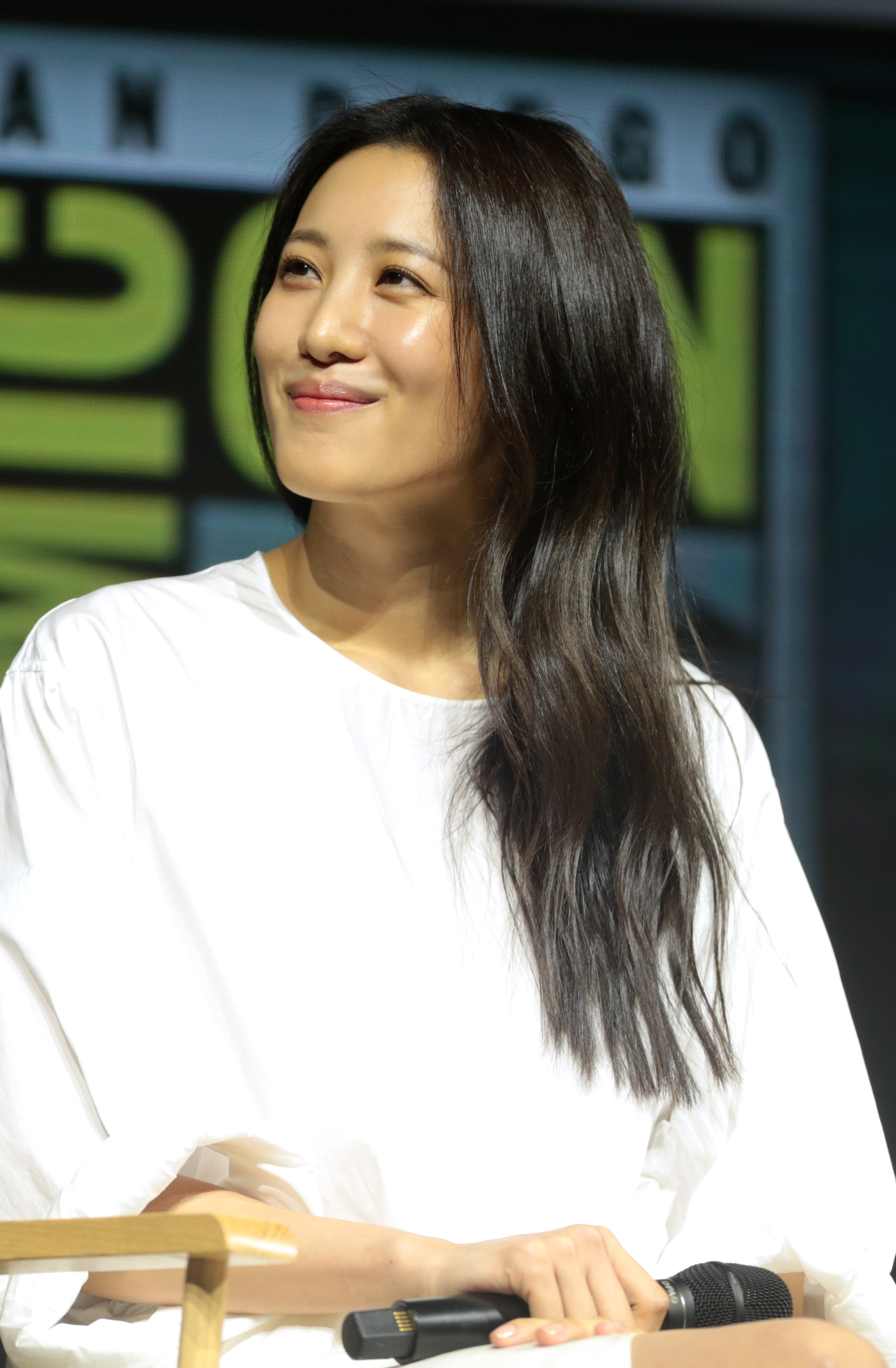 Claudia Kim speaking at the 2018 San Diego Comic-Con International in San Diego, California.